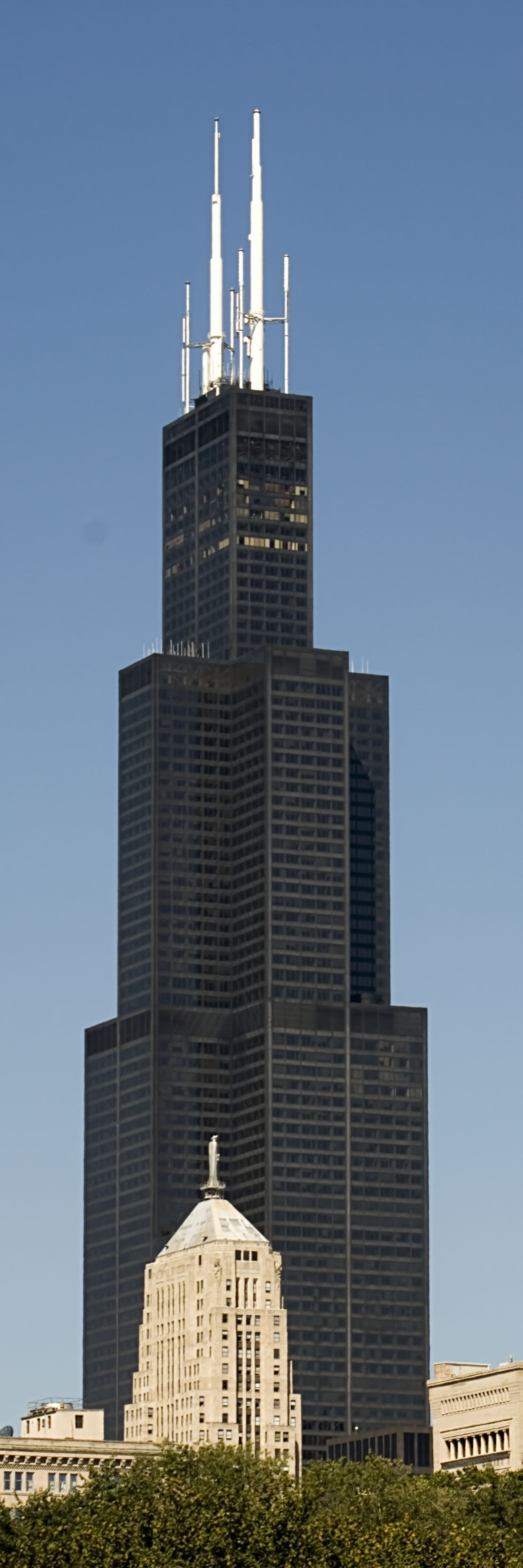 The Sears Tower, as seen from the east along Lake Shore Drive